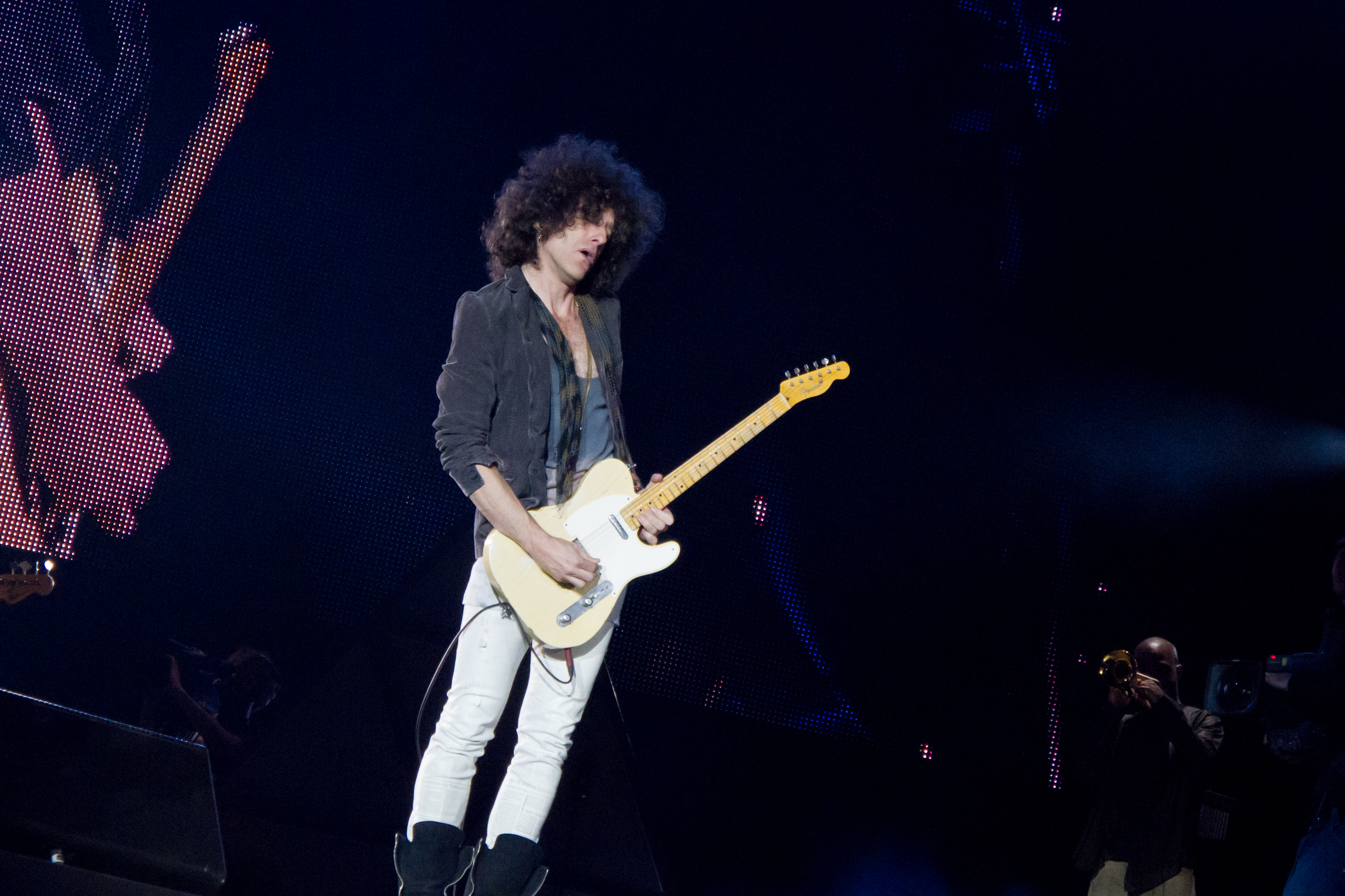 Lenny Kravitz and Craig Ross live in Rock in Rio Madrid 2012.